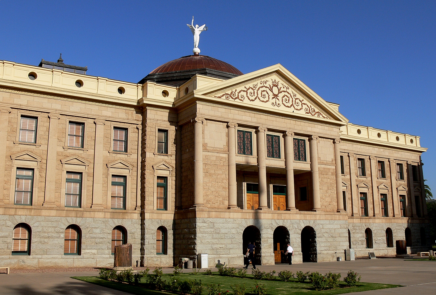 The image was personally taken by me in August 2006. Wars 22:17, 17 August 2006 (UTC)